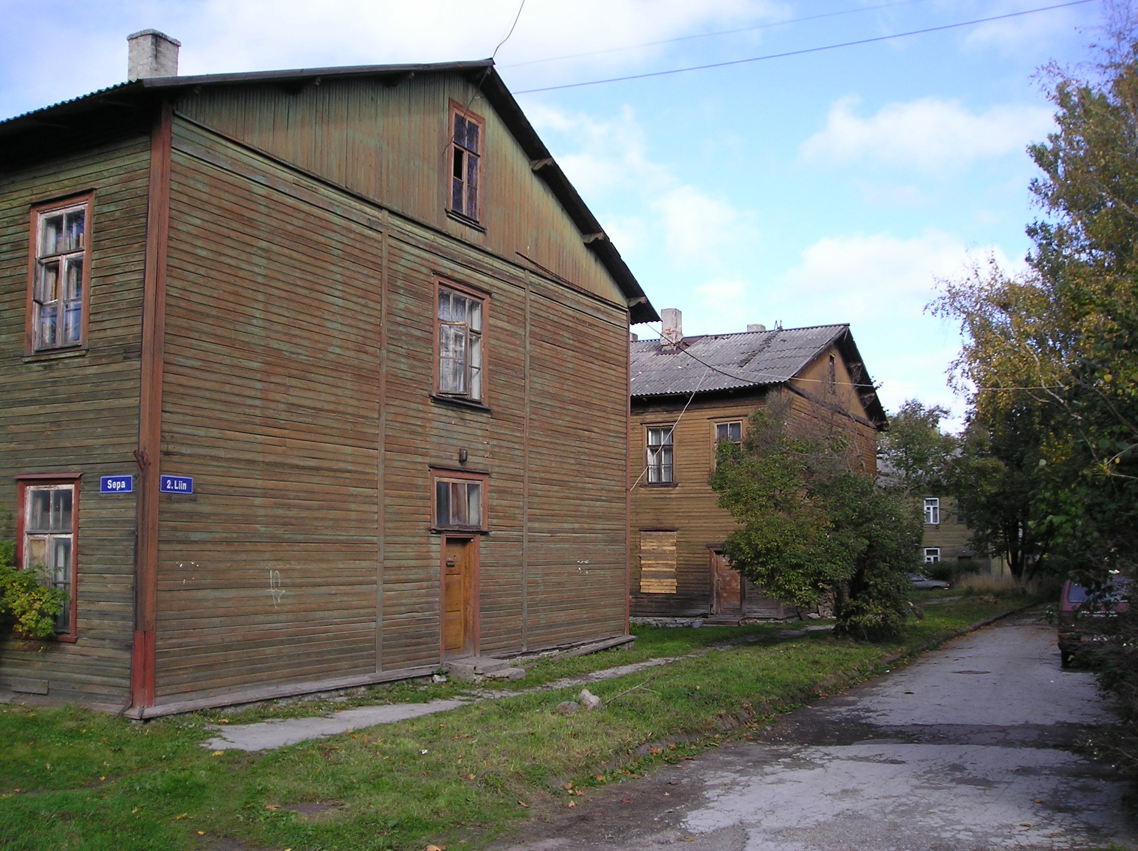 Kopli, Tallinn